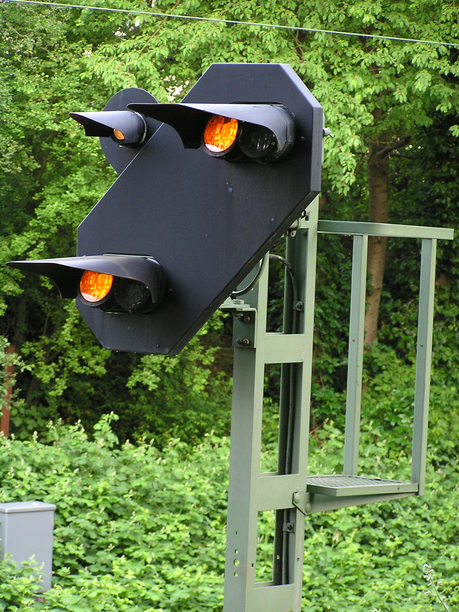 German H/V-distant signal showing the next home signal will be “stop”